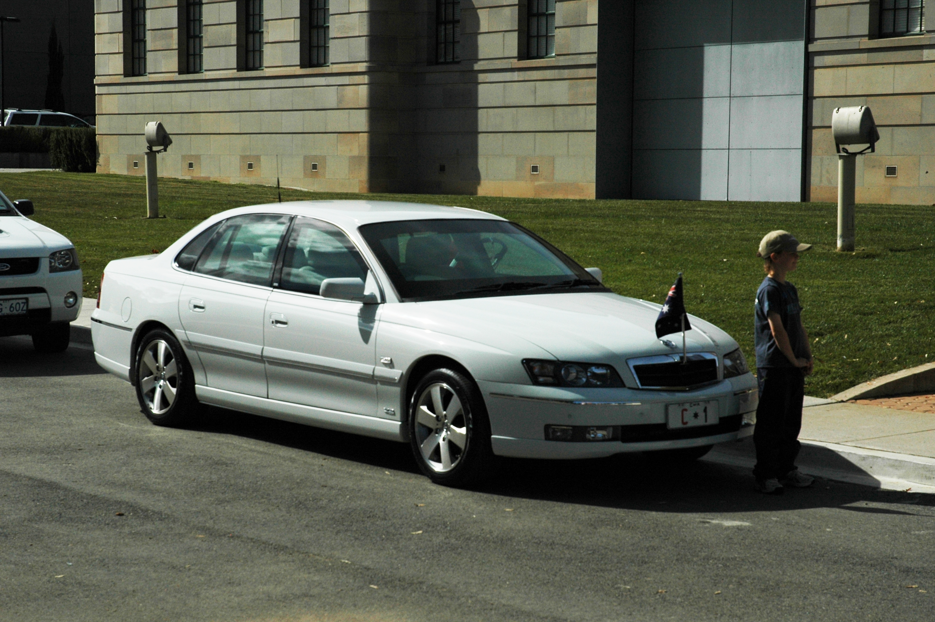 Prime Ministerial Limousine (2004–2006 Holden WL Caprice) of Prime Minister Kevin Rudd parked at the Australian War Memorial in Canberra on Anzac Day 2008 along with an Australian Federal Police vehicle (2006–2008 Ford Territory Ghia Turbo).